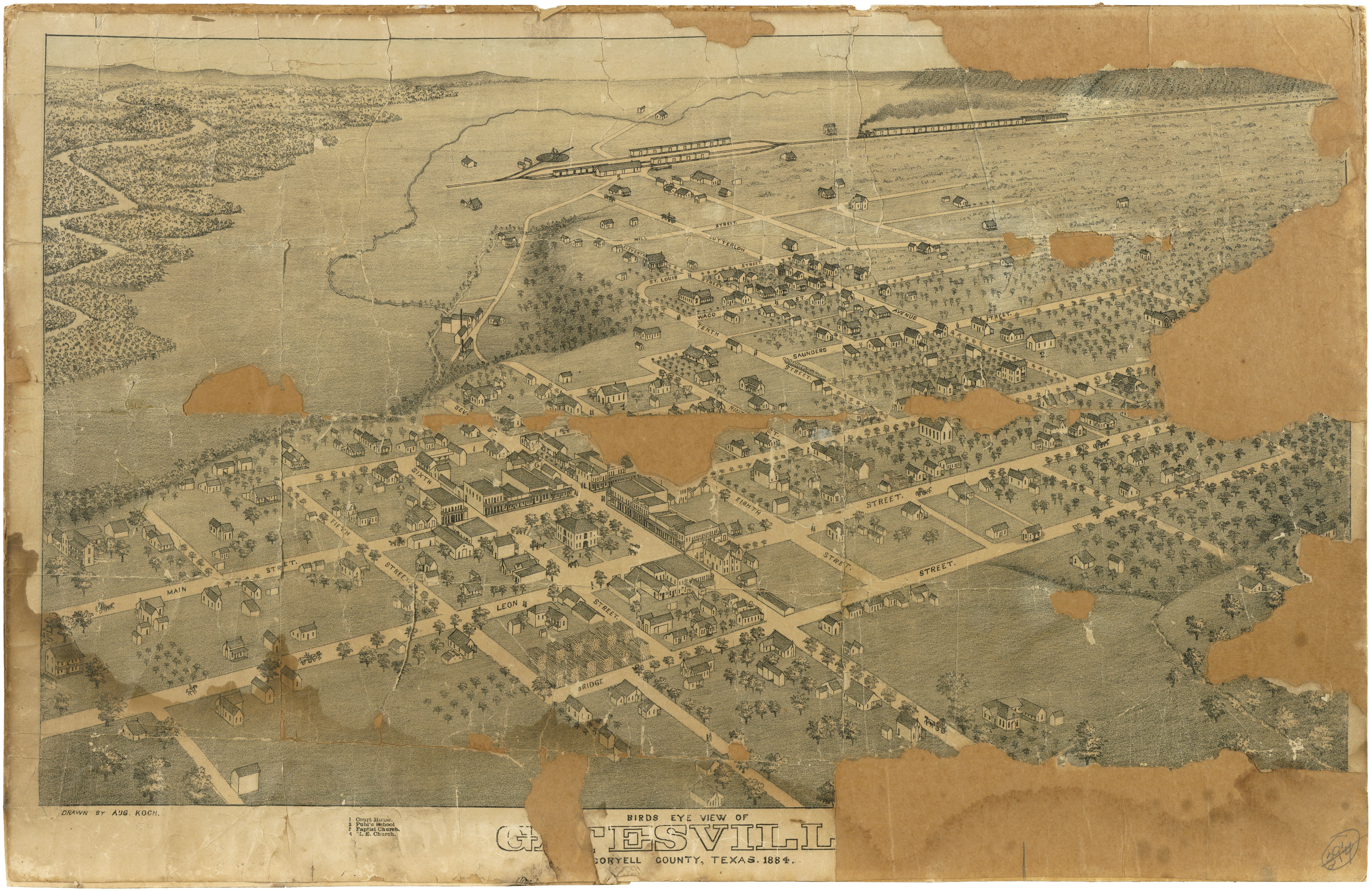 Gatesville, Texas in 1884. Bird's Eye View of Gatesville Coryell County, Texas 1884, 1884. Lithograph, 15 x 23.6 in. Lithographer unknown. Gatesville Public Library.